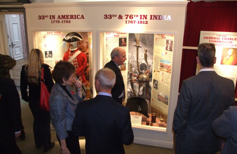 Part of the phase 2 refurbishment of the Duke of Wellington's Regiment Museum, Bankfield Museum, Halifax